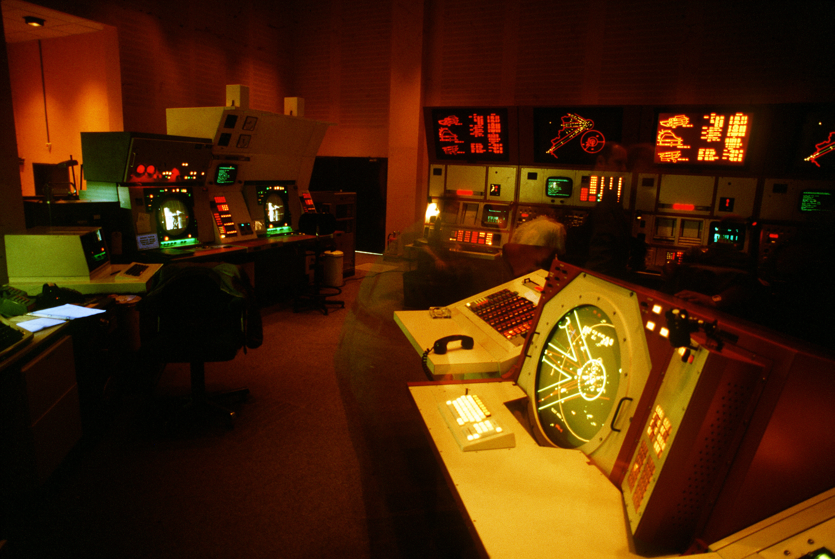 An interior view of the Berlin Air Route Traffic Control Facility at Templehof Central Airport. The facility is operated by members of the 1946th Information Systems Squadron.